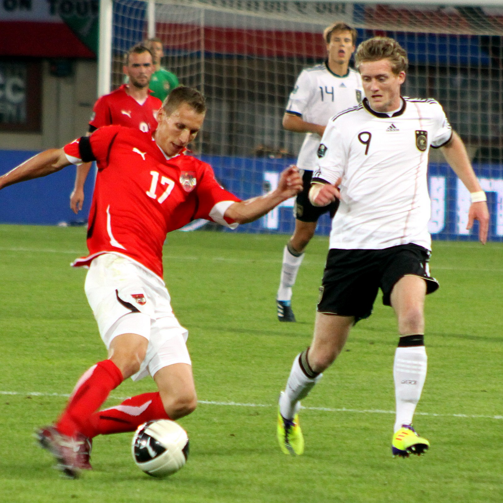 Qualifying for the UEFA Euro 2012 Austria (red shirt) vs. Germany (white Shirt) 1:2 (0:1) at 2011-06-03 in Vienna (Ernst-Happel-Stadion) — The photo shows (fron left to right): Florian Klein (FK Austria Wien), André Schürrle (1. FSV Mainz 05).